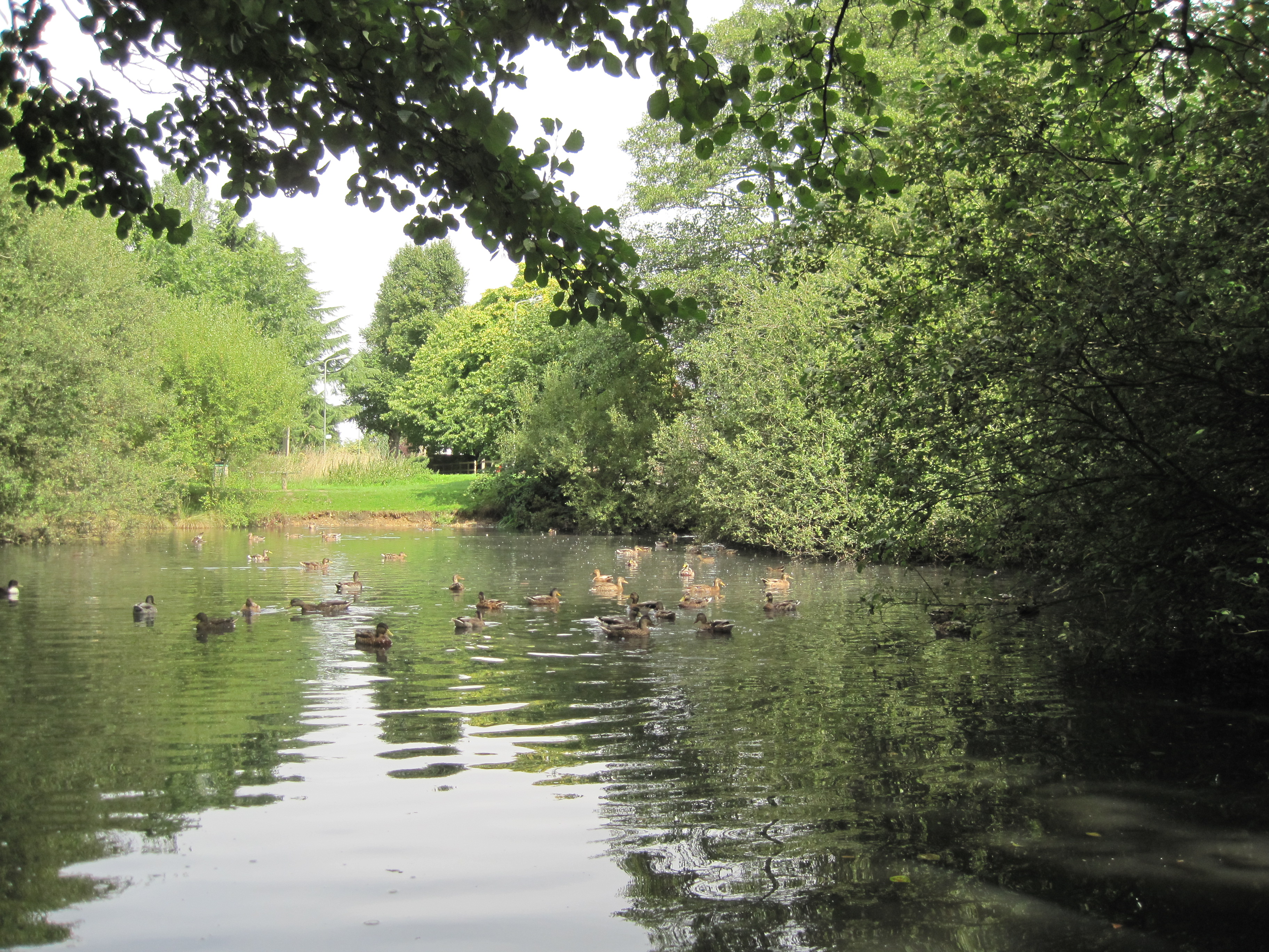 Joslin's pond in Hadley Green nature reserve, Monken Hadley, Barnet, London